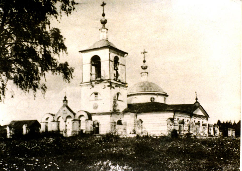 Сhurch of the Intercession (Rusino)